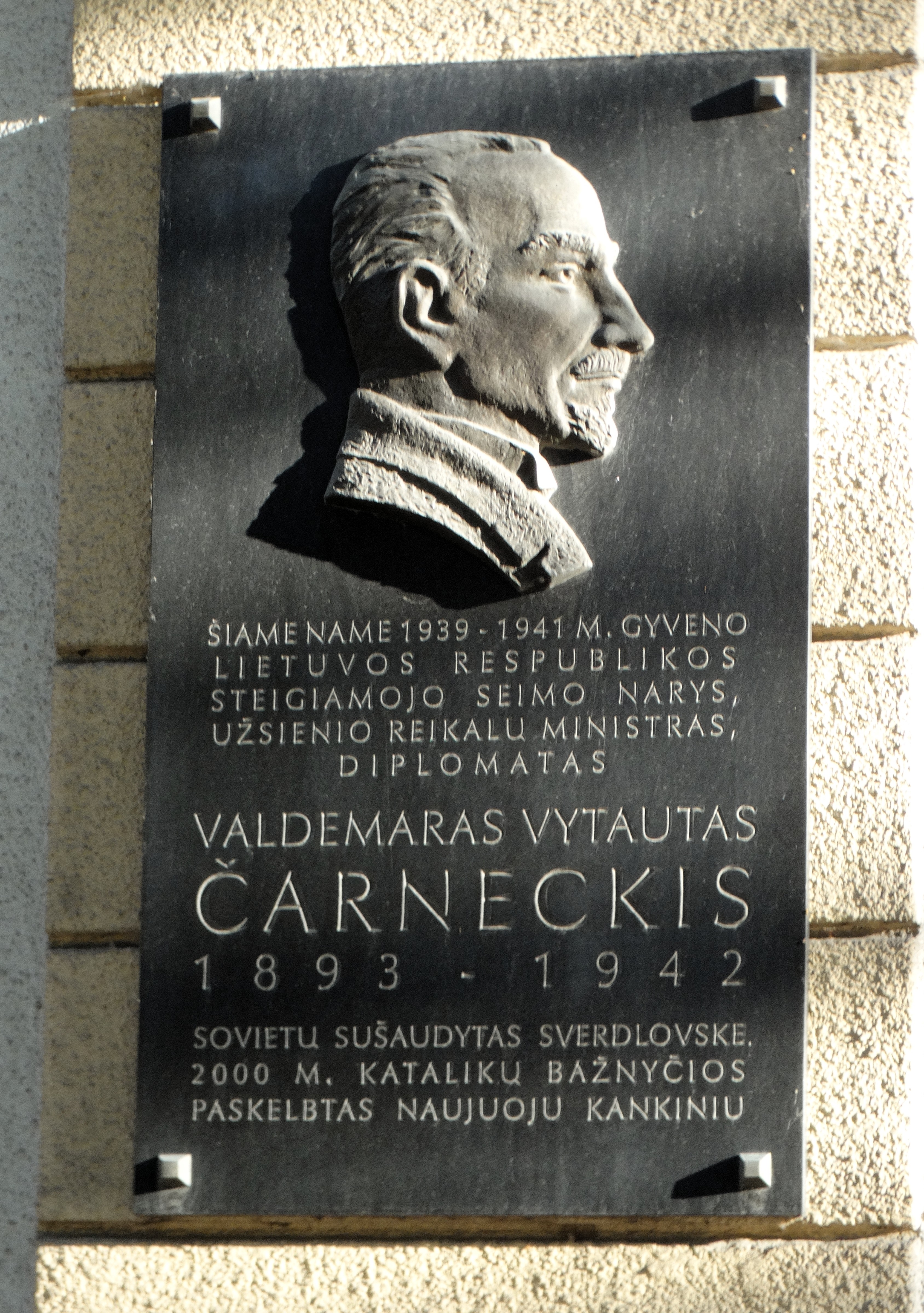 Memorial plaque to Voldemaras Vytautas Čarneckis, Putvinskio g. 49, Kaunas, Lithuania